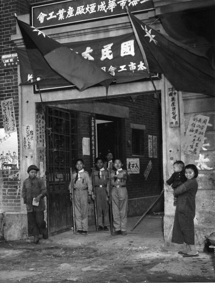 Boy scouts at the gate of a polling booth during the Republic of China legislative election in Shanghai, 1948. 中文（中国大陆）: 1948年中华民国立法委员选举中，上海市华成煙厂产业工会投票站大门处的童子军。